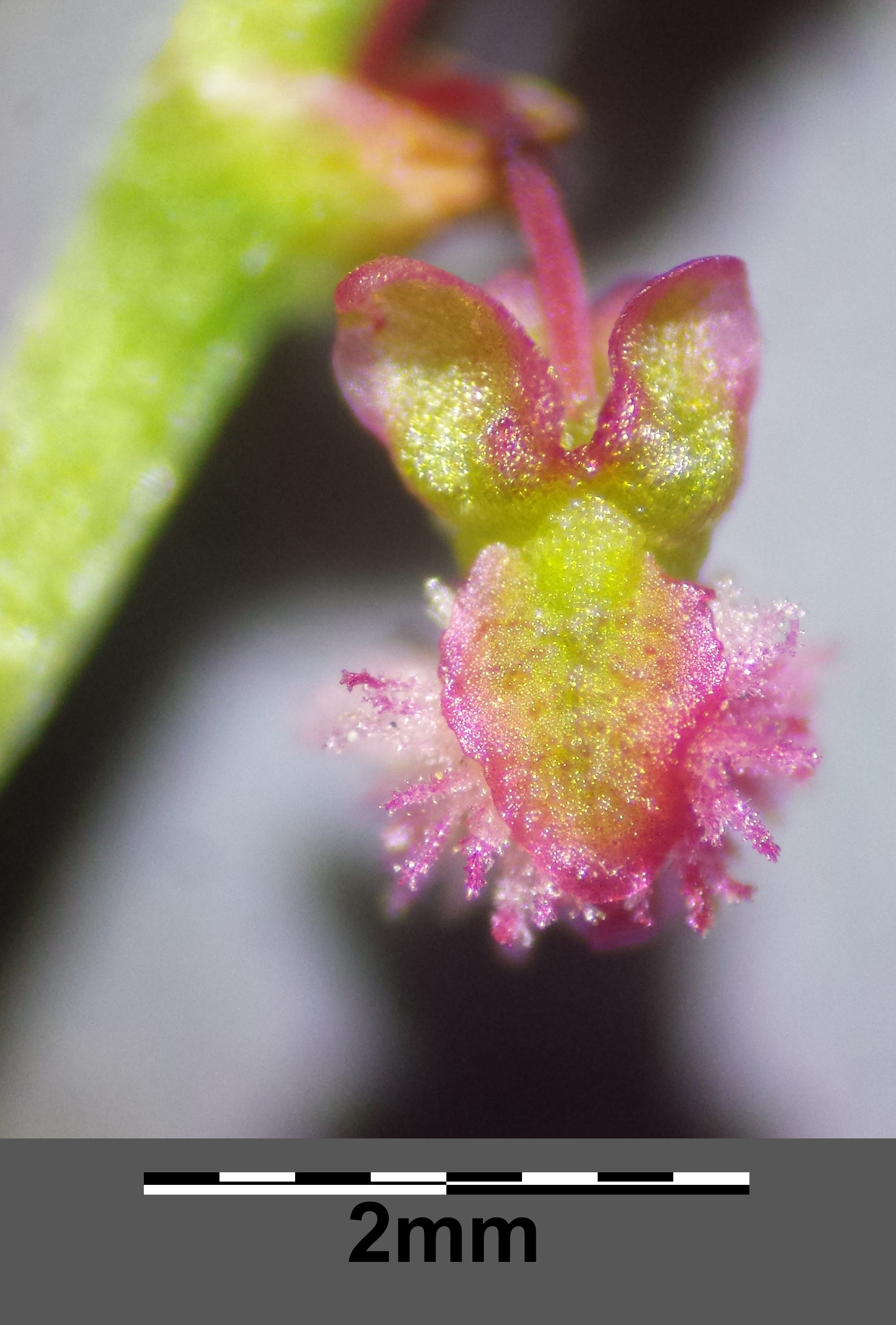 Flower Taxonym: Rumex thyrsiflorus ss Fischer et al. EfÖLS 2008 ISBN 978-3-85474-187-9 Location: Floridsdorf rail station, Vienna-Floridsdorf - ca. 160 m a.s.l. Habitat: ruderal area